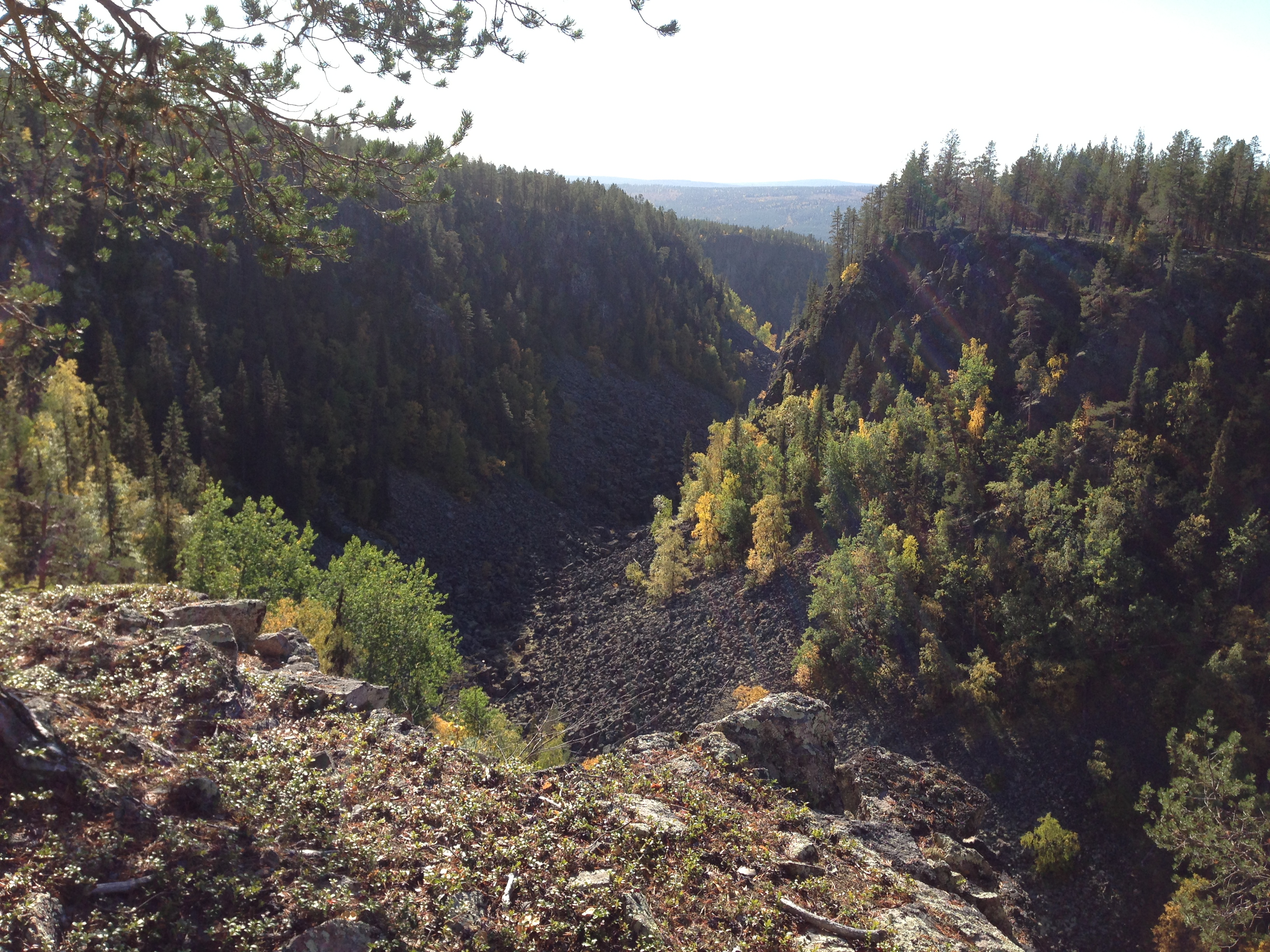 Måskosgårsså canyon, in the southern part of Muddus national park. There is no longer any river in the canyon.